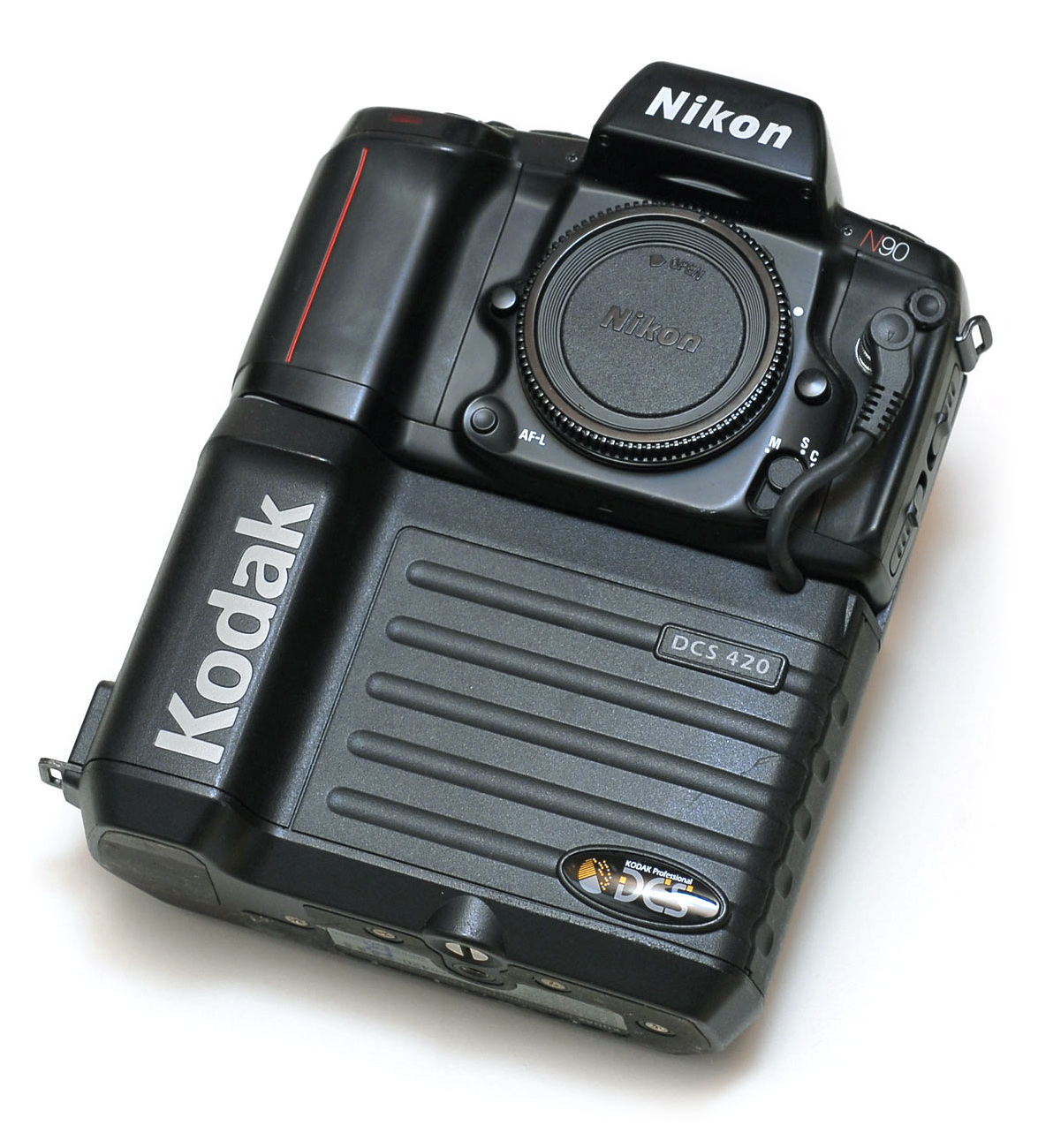 Kodak DCS 420 digital SLR. This is based on the body of a Nikon N90 (F90s/x) with Kodak's own digital camera back added.